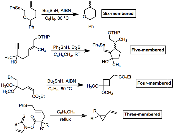 ring sizes of radical cyclization